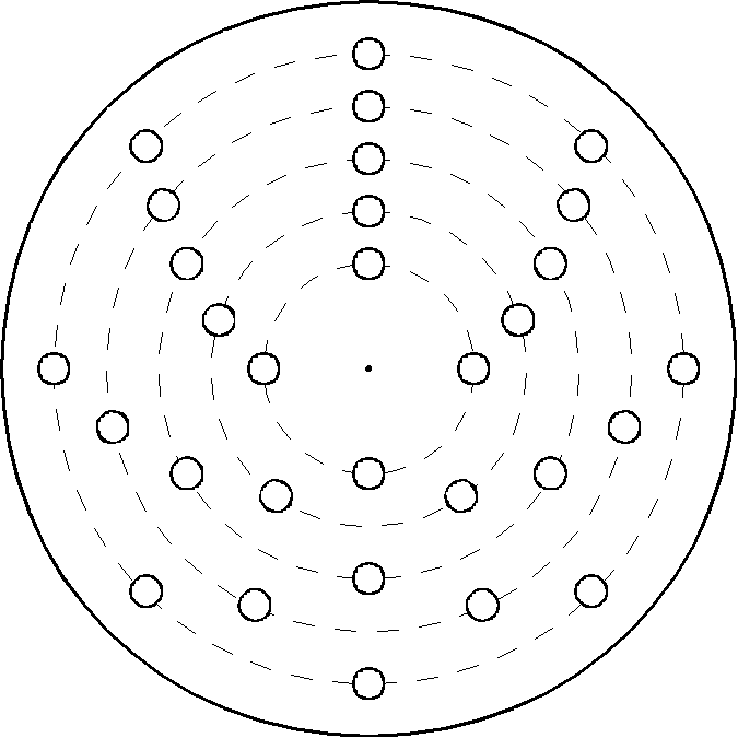 The pitch is determined by both the speed at which the disk rotates and the number of holes which air passes through. Given a constant speed of rotation, air is directed to a a concentric circle of a different radius, thus blowing air through a different number of holes with each rotation. This disk contains five circles, with 4, 5, 6, 7, and 8 equally spaced holes each, thus producing a harmonic seventh chord on a root determined by the speed of rotation.